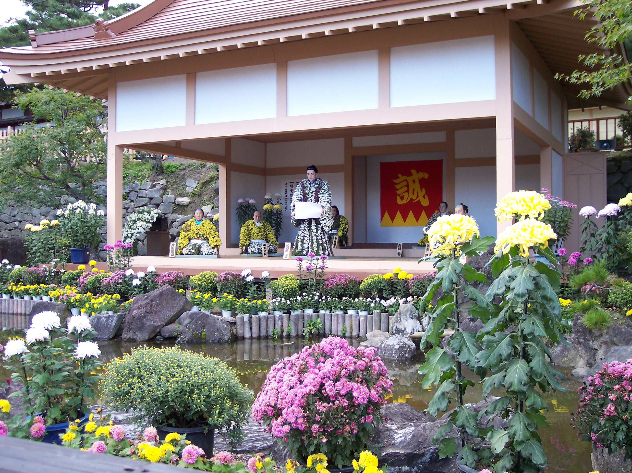 Part of the Nihonmatsu Chrysanthemum Doll and Flower Festival （二本松菊人形祭り） 2005.